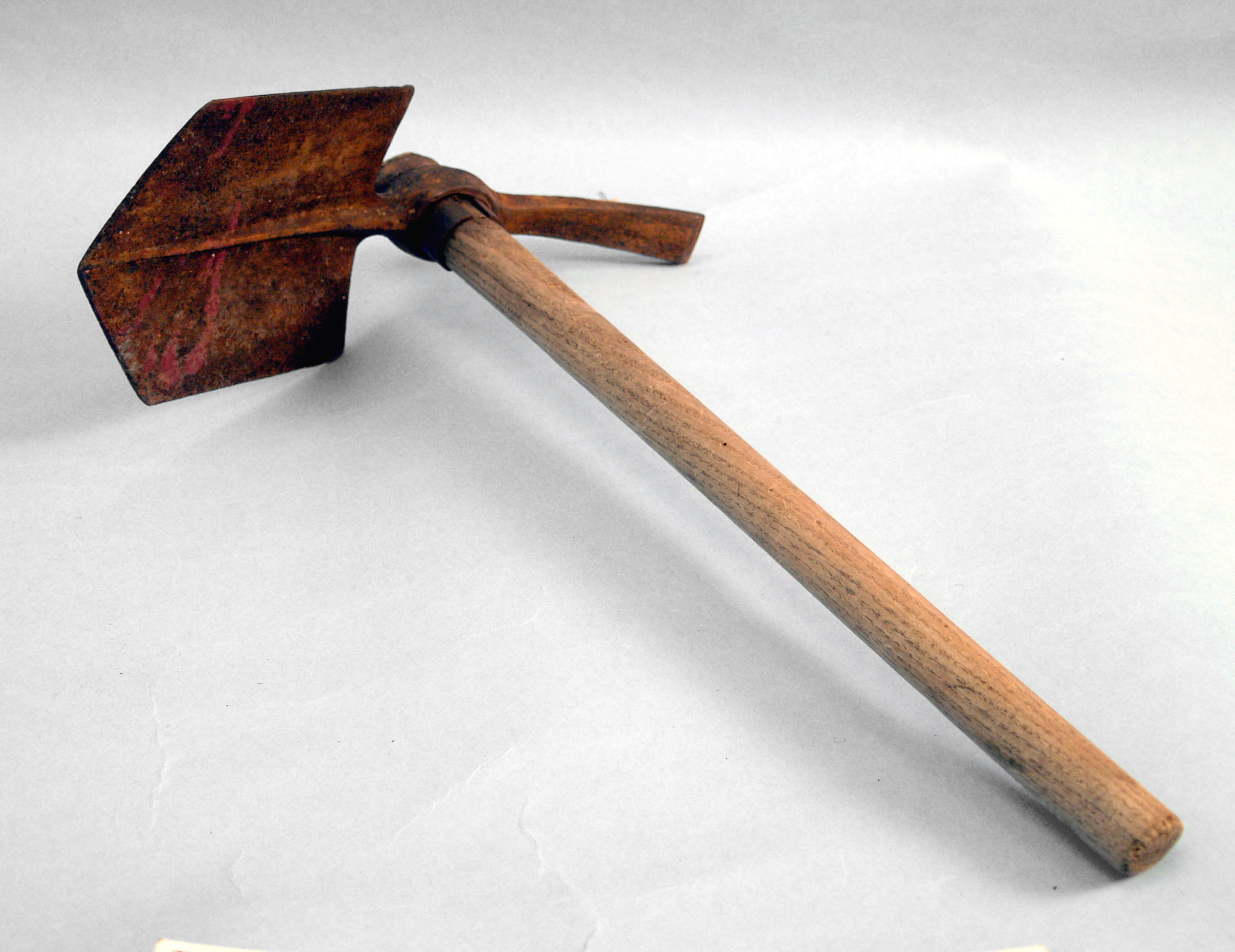 Entrenching tool used by 17735, Rifleman William M Smallfield, 3rd NZ Rifle Brigade, Western Front, WW1